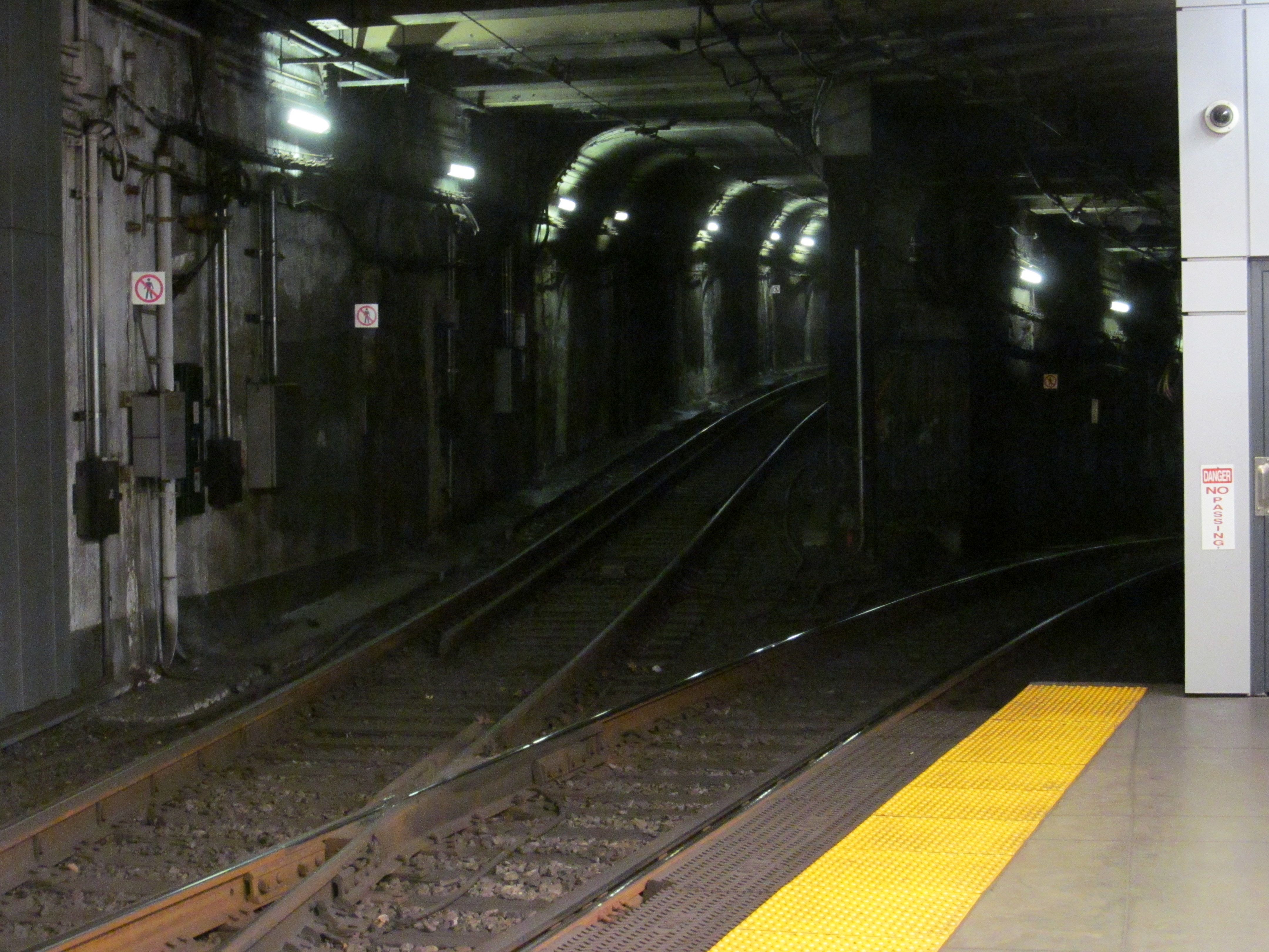 One of the remaining loops on the MBTA system is the Kenmore loop, which allows trains from the C and D branches to loop without continuing into the central subway. Original plans called for the B Branch tracks to be lowered - thus making the low platform into a high platform - and converted into a conventional subway branch, while C Branch streetcars would loop at Kenmore.